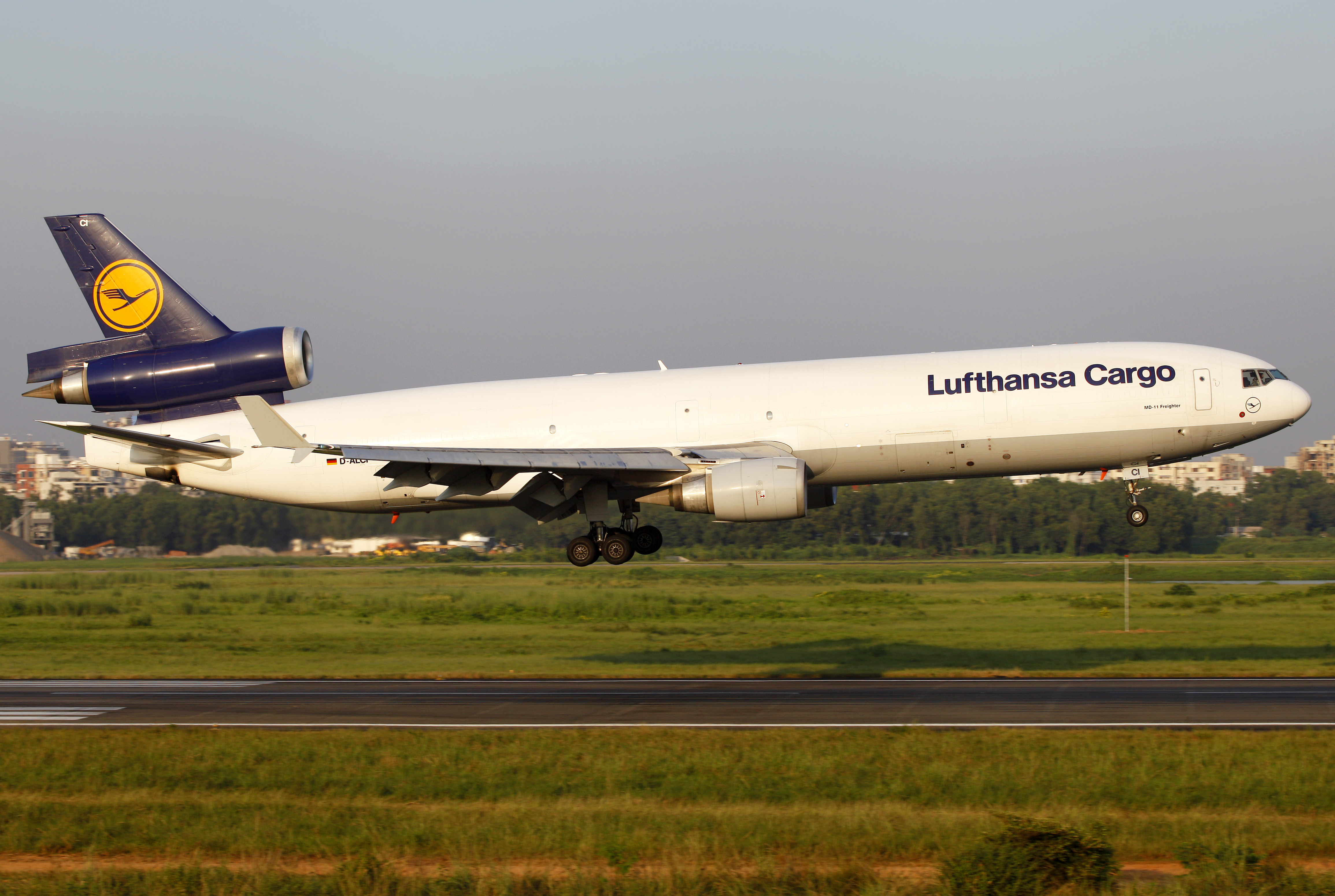 D-ALCI McDonnell Douglas MD-11(F) Lufthansa Cargo Landing at Hazrat Shahjalal International Airport Dhaka - VGHS / DAC